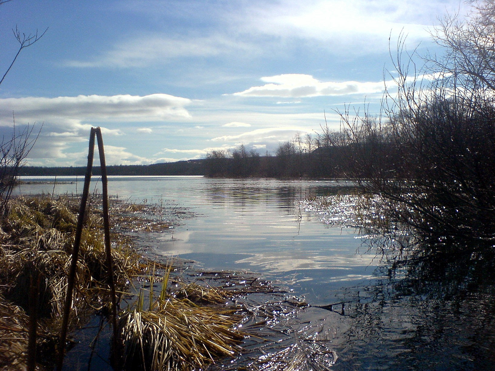 Ala Lompolo, Kiruna, during spring.